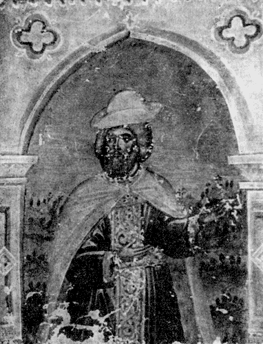 Michael Palaiologos